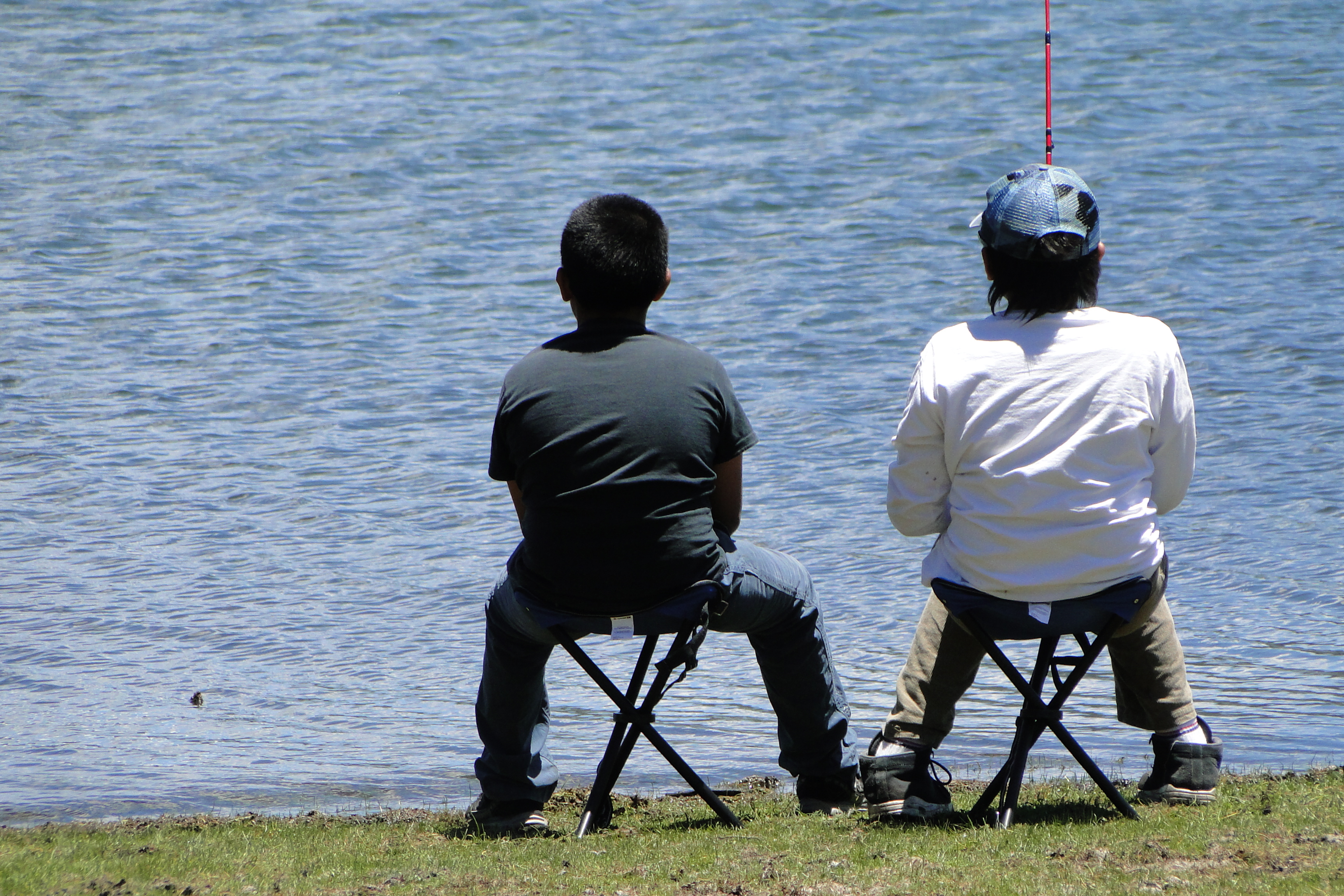 pesca en el neusa